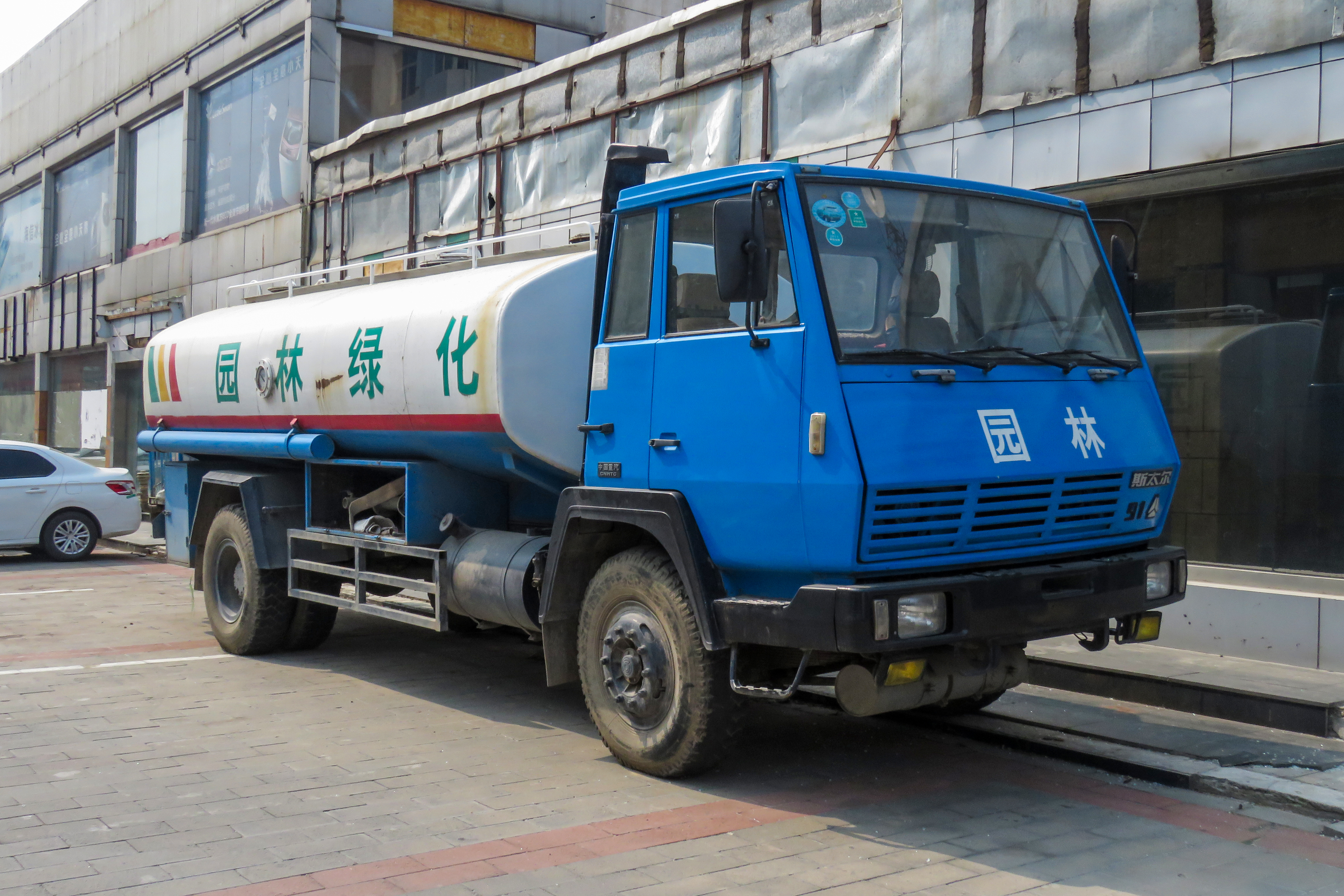 Wow, a nice Steyr! Taken en route from Zhuozhou Railway Station to the Oriental Geophysics bus stop of route 838 (to Beijing).